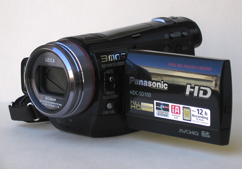 A photo of the Panasonic HDC-SD100 camcorder, front-angle view.